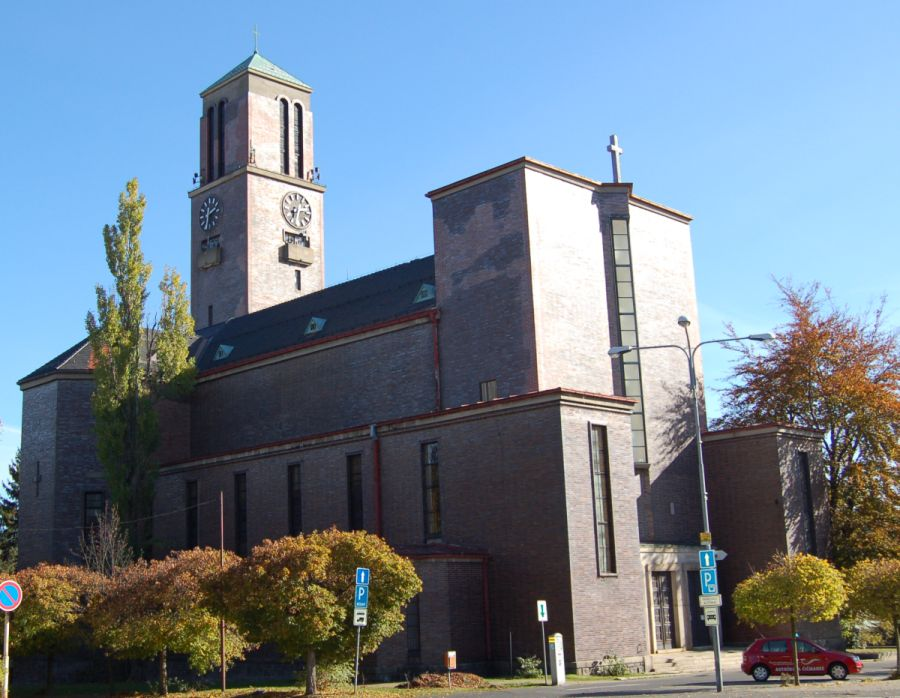 Church of the Sacred Heart (1930-1932) by Josef Zasche in Jablonec nad Nisou, Czech Republic.